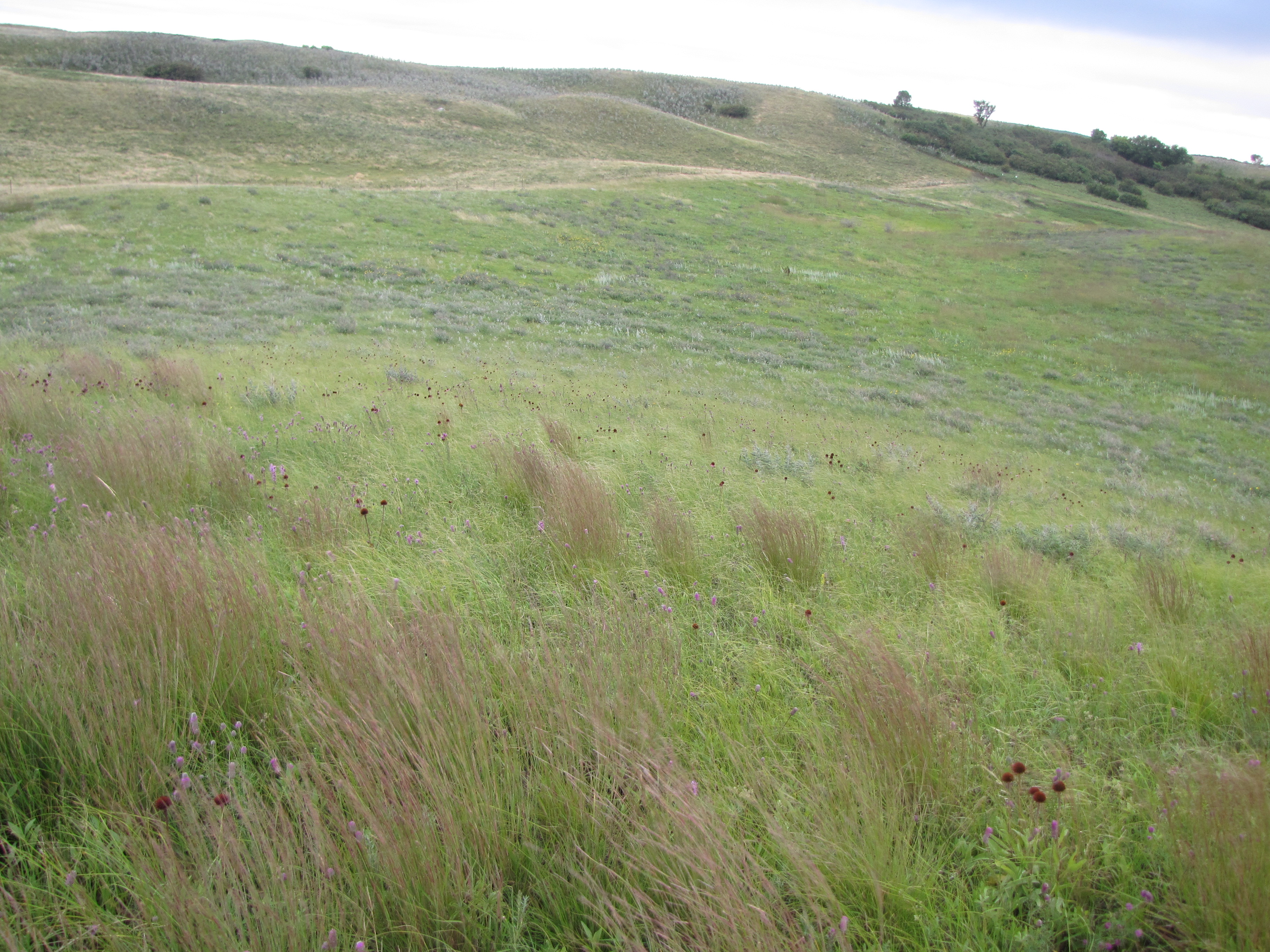 Sullys Hill National Game Preserve in Fort Totten, ND. Managed by the USFWS, Sullys Hill provides habitat for myriad wetland-dependent birds. Photo: Cami Dixon/USFWS.